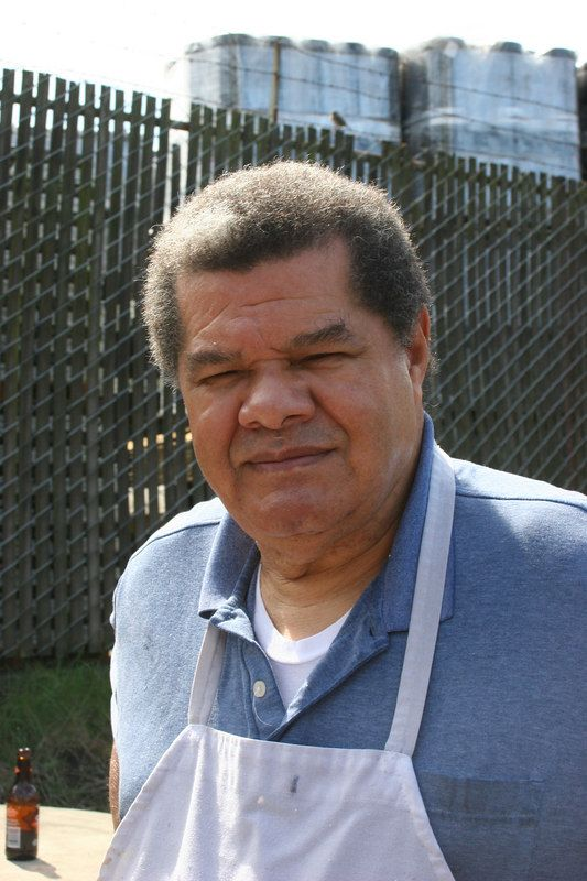 Photo of Gene Porter - proprietor of Dixie's BBQ in Bellevue, Washington 2006-04-12